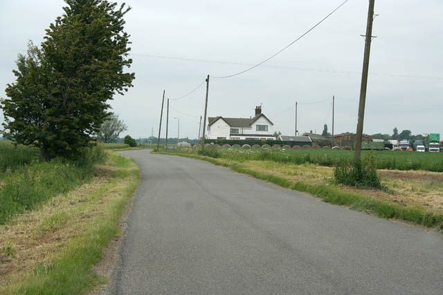 Station House On Broad Gate, between Weston Hills and Weston